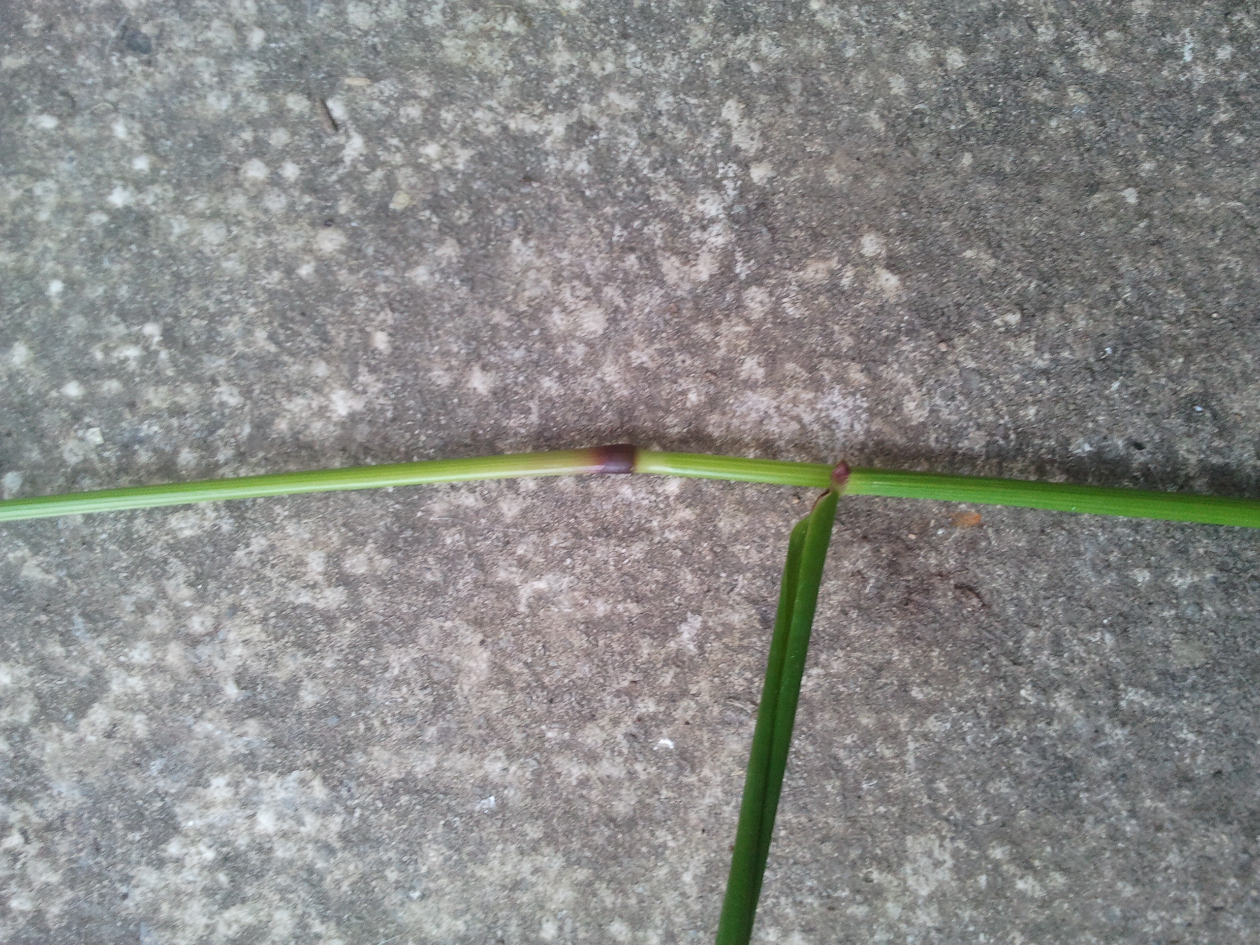 giant fescue node